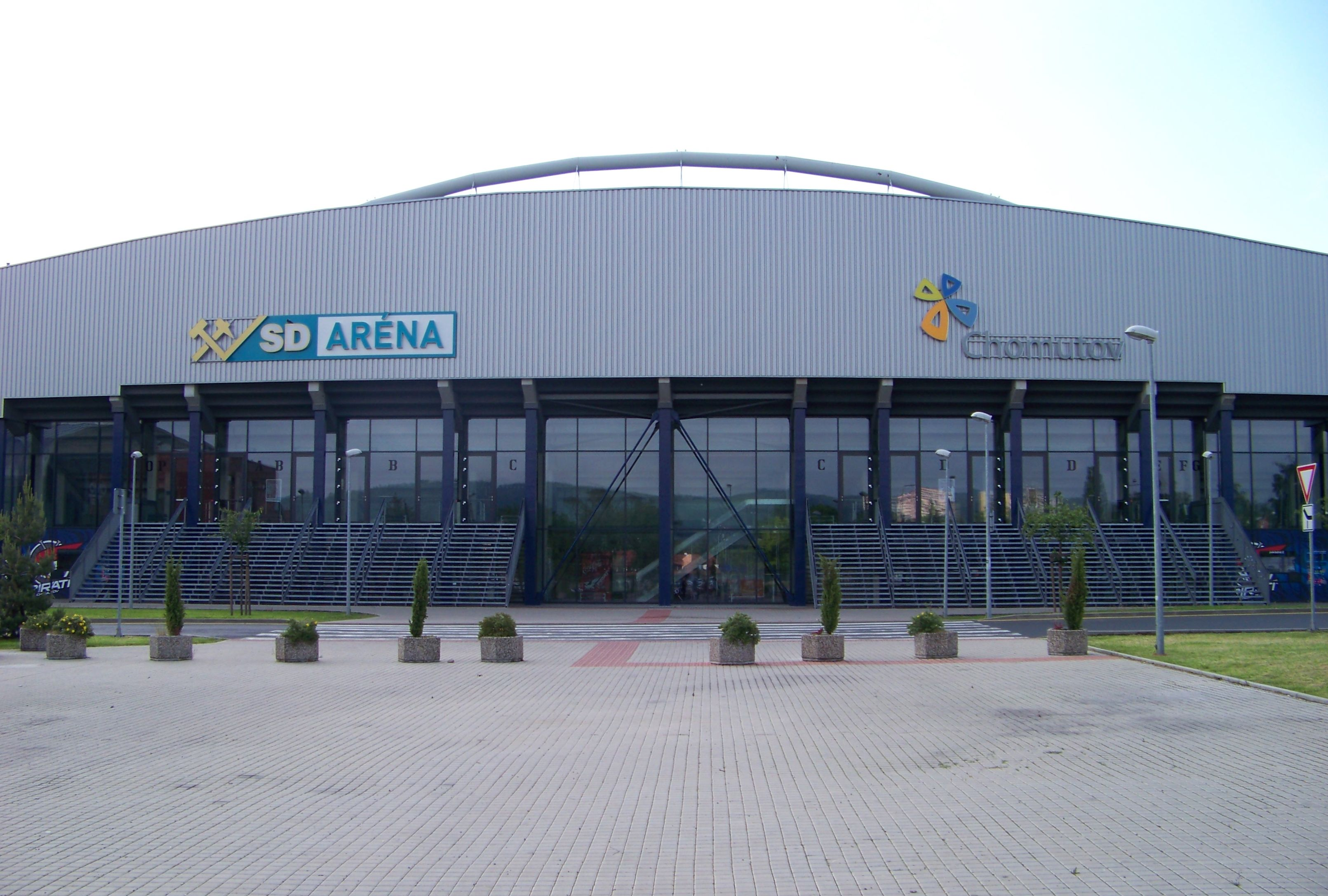 Chomutov, Chomutov District, Ústí nad Labem Region, Czech Republic. Mostecká 5773, SD aréna.